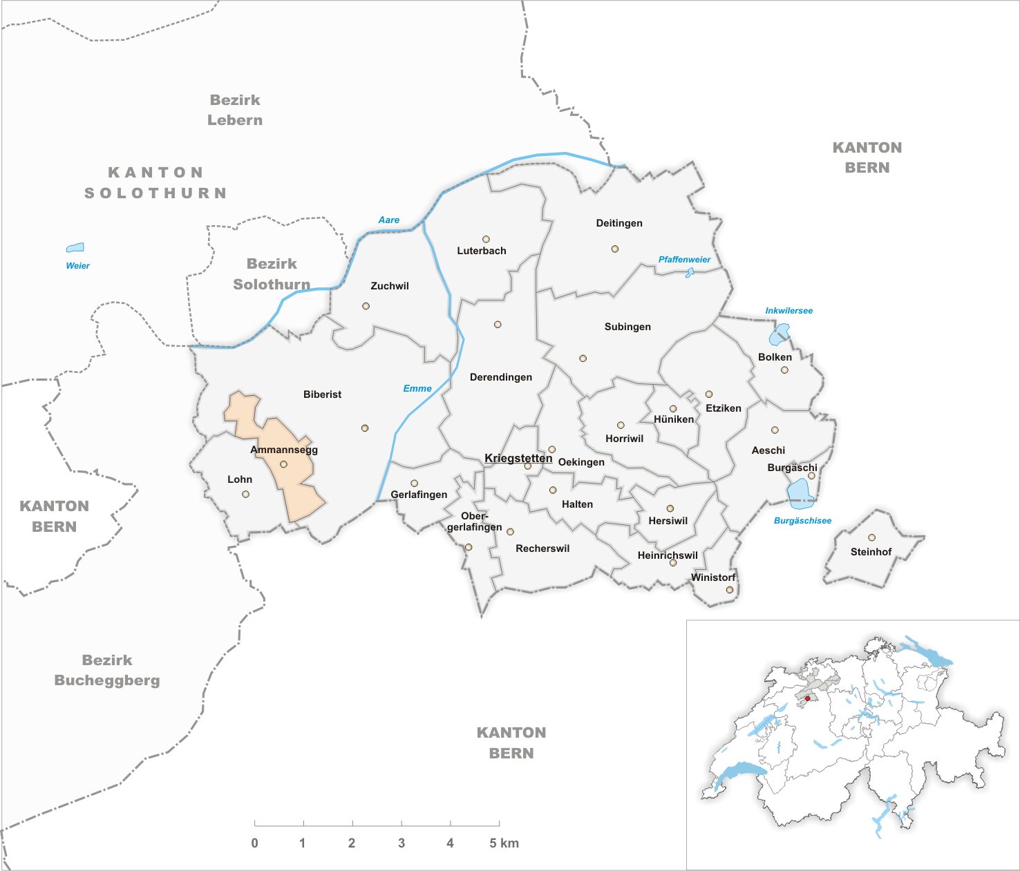 Municipality Ammannsegg Artist: Tschubby